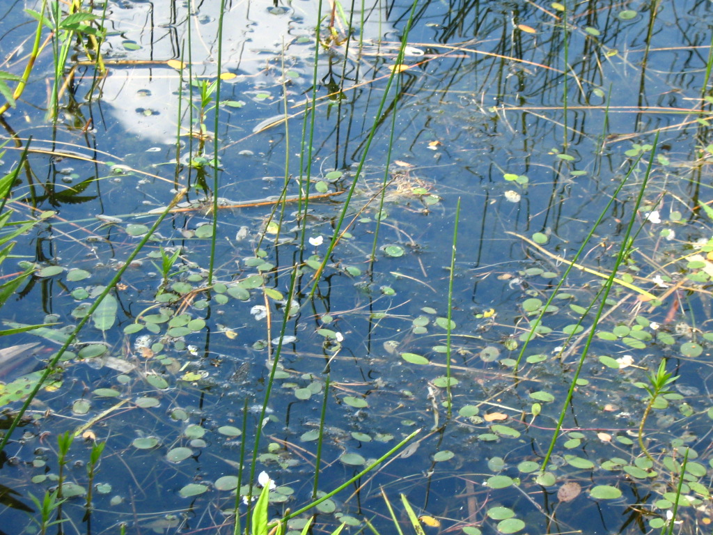 Luronietum natantis - plant association of Floating Water-plantain (Luronium natans). Poland.